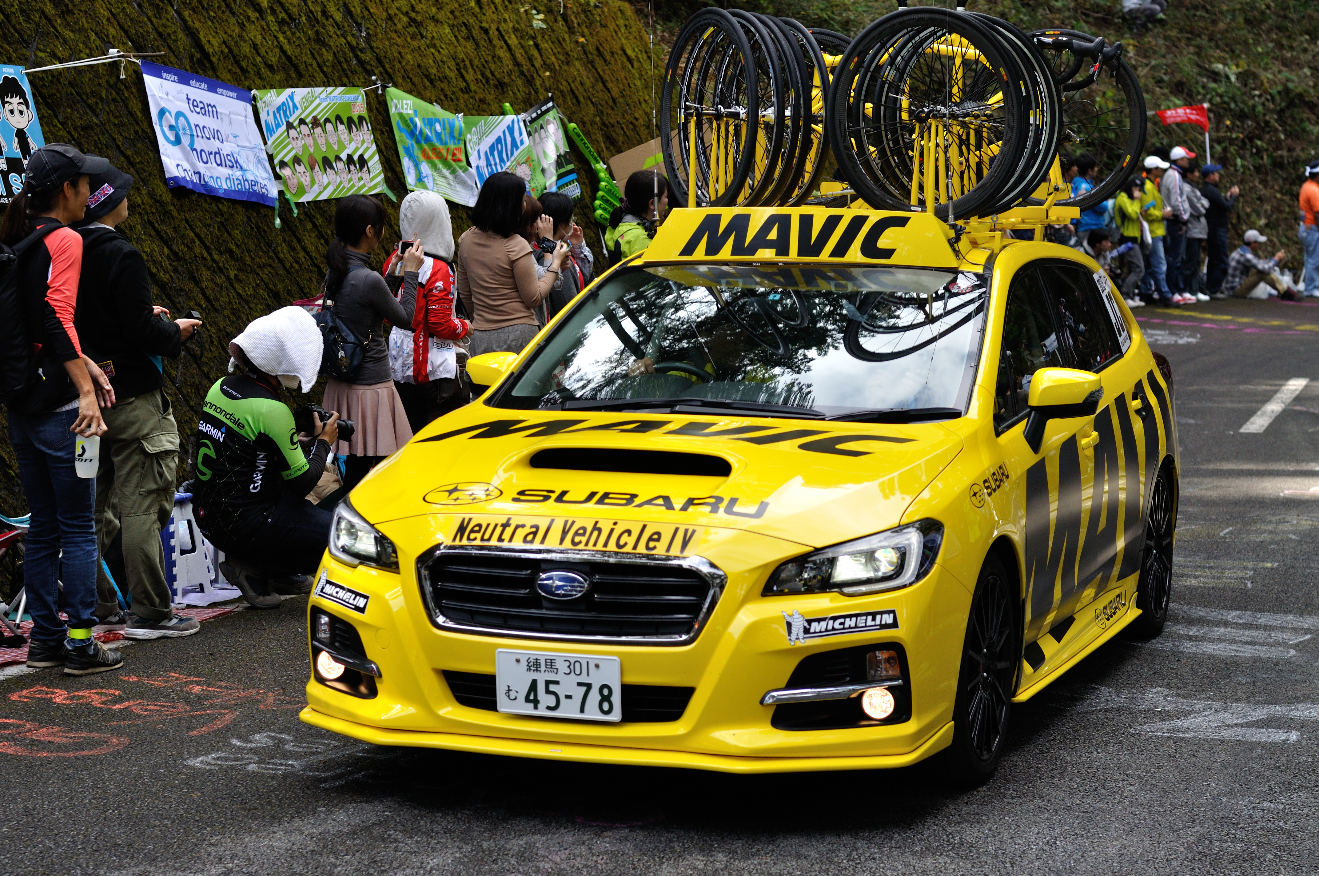 Mavic car in Japan cup cycle road race 2015